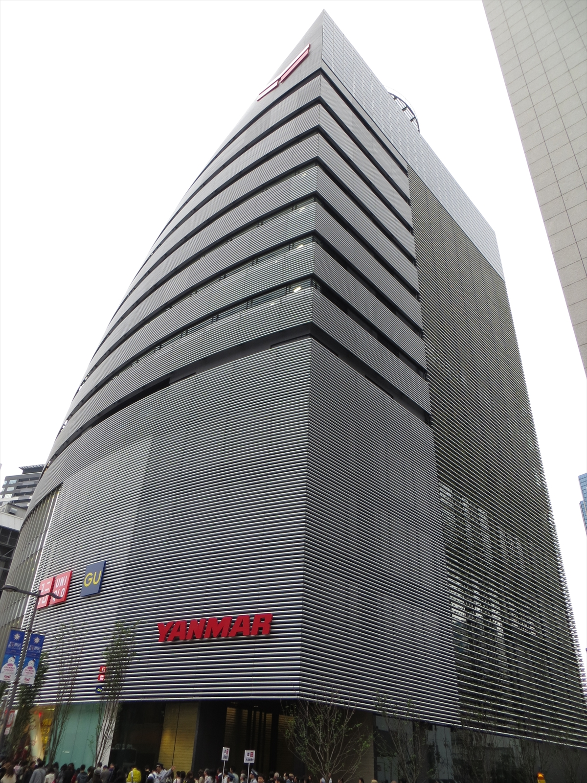 Headquarter of Yanmer and UNIQLO OSAKA.